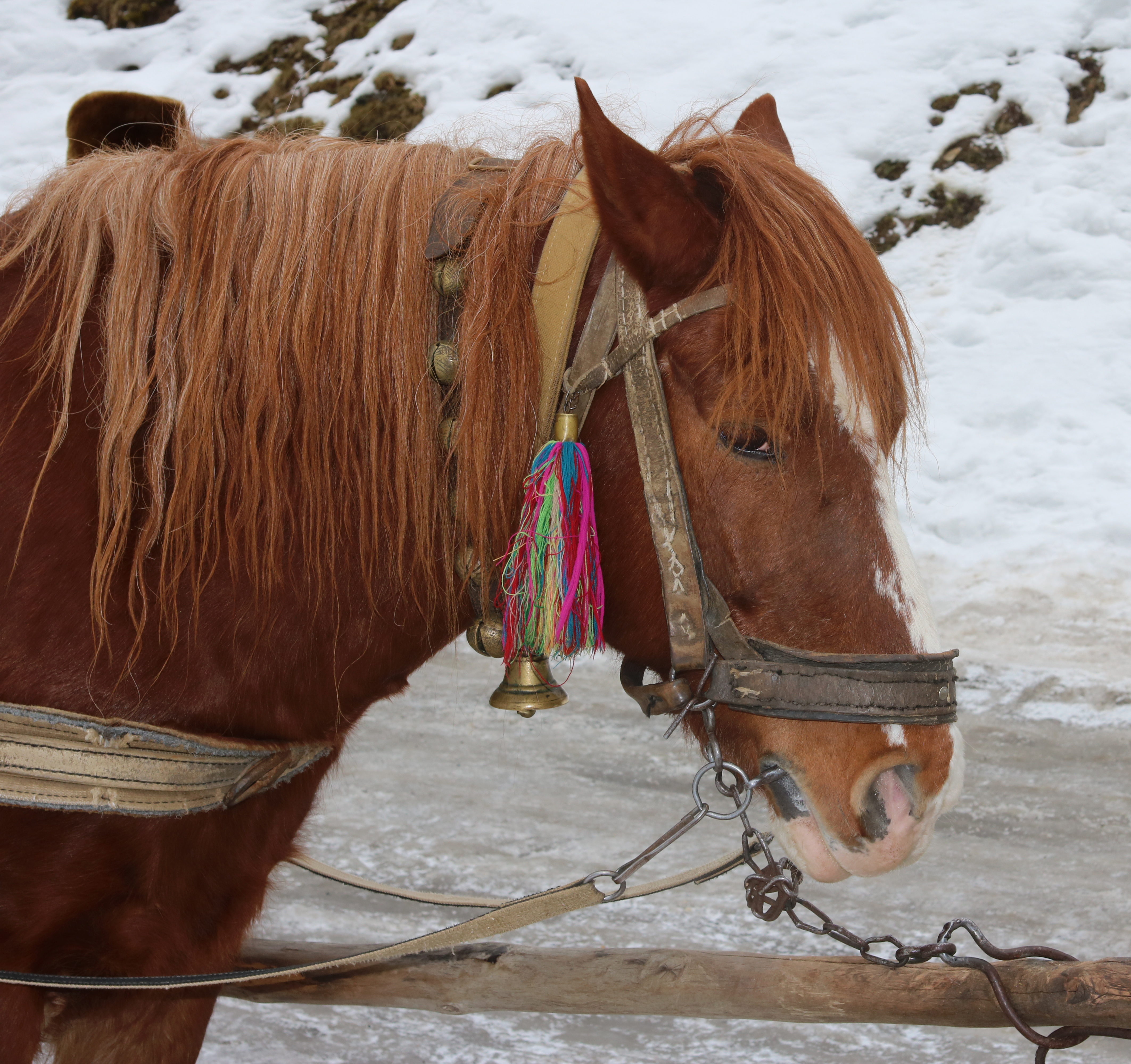 Horse close-up. Bukovel in the Ivano-Frankivsk Oblast, Ukraine.